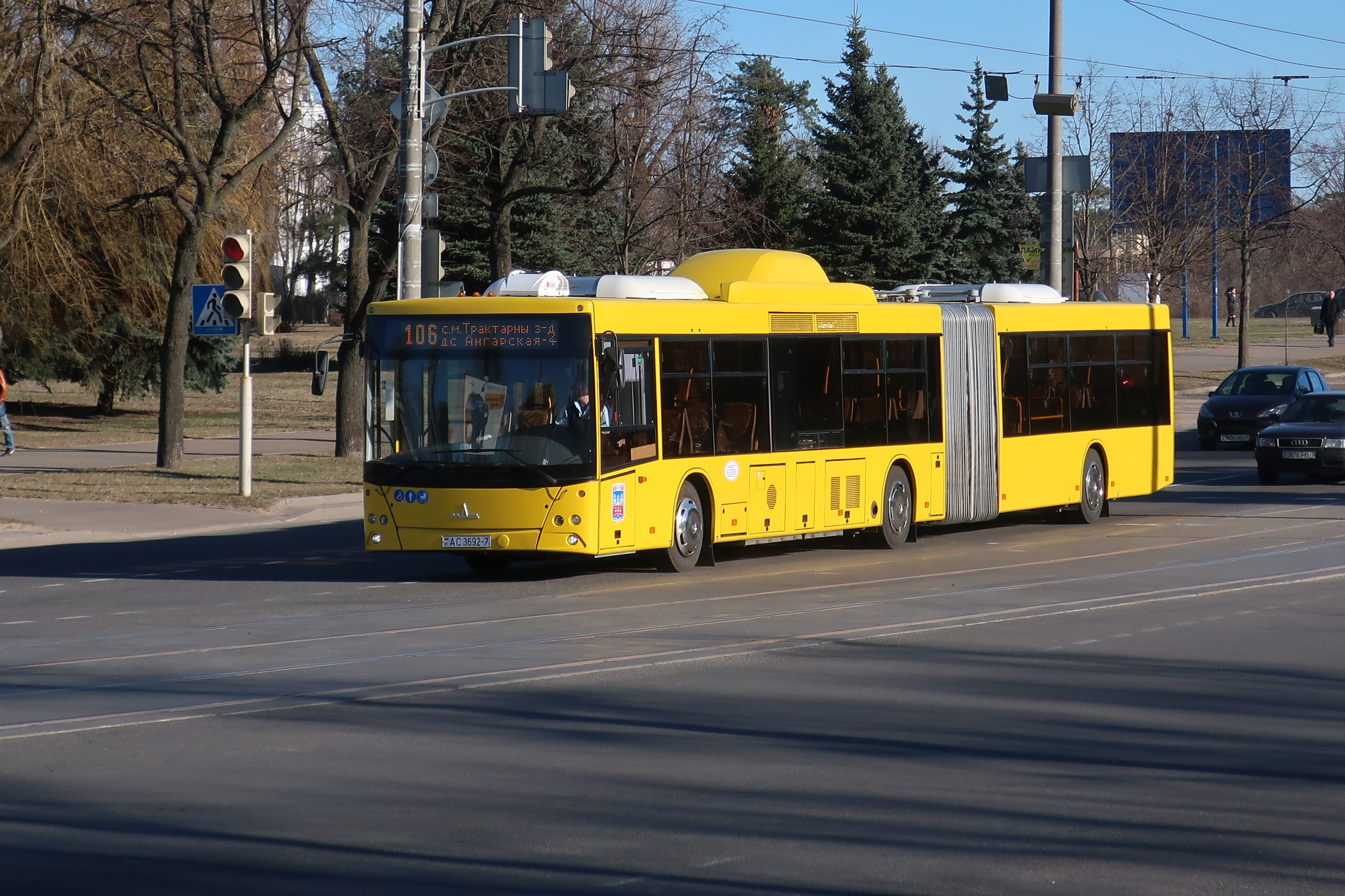 MAZ-215 bus (route 106) in Minsk, Belarus